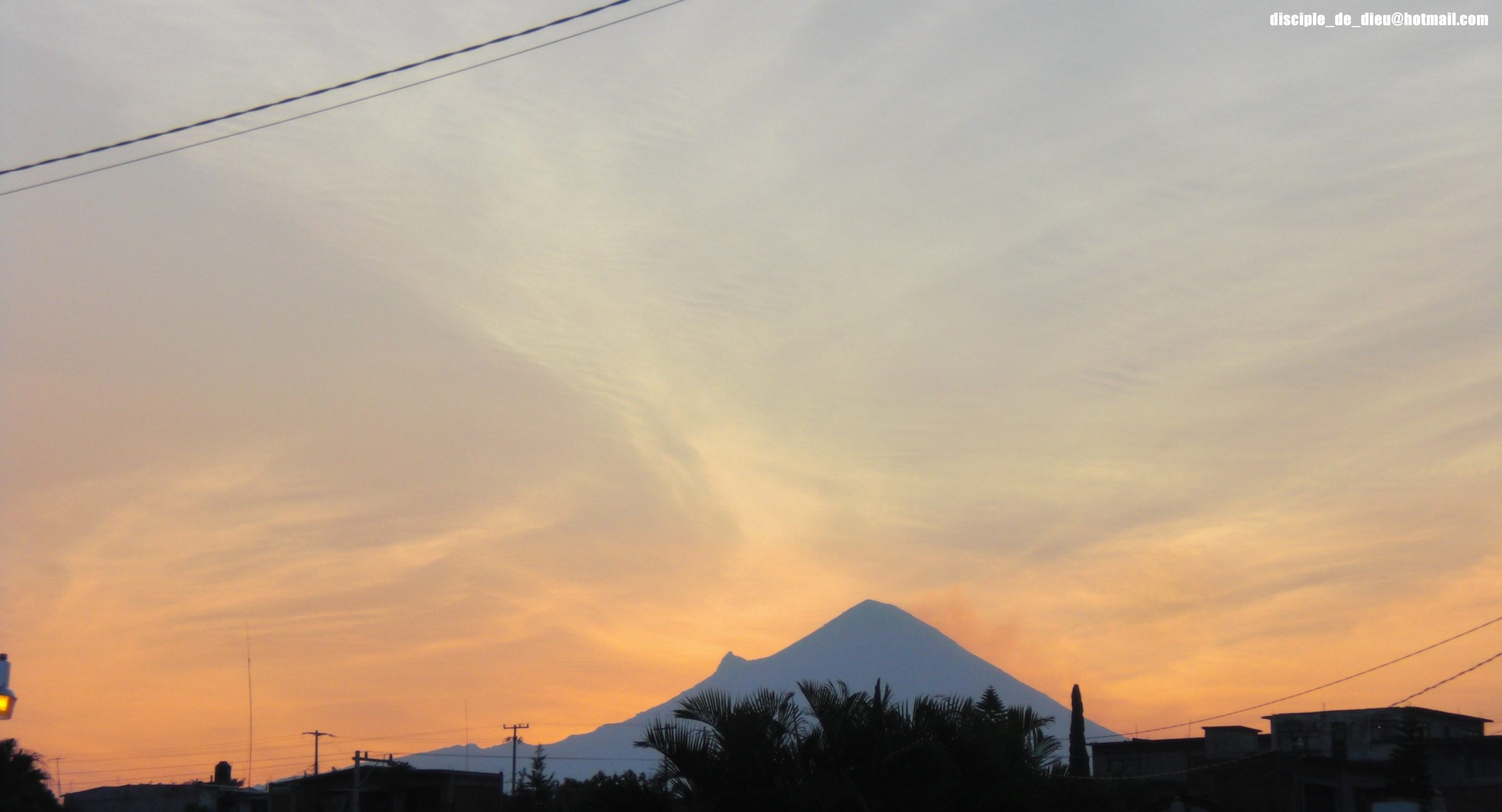 Atlatlahucan